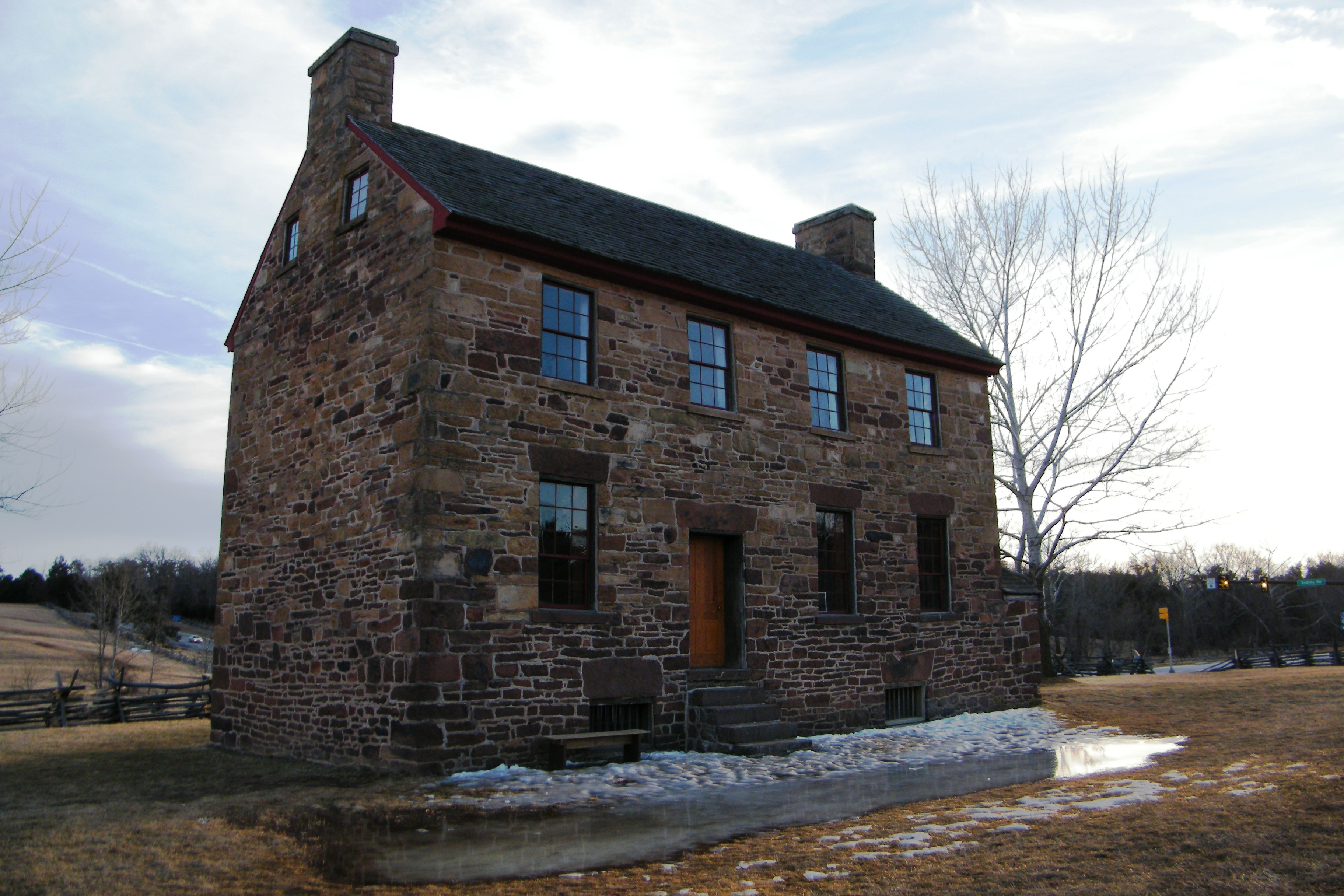 Manassas National Battlefield, Virginia